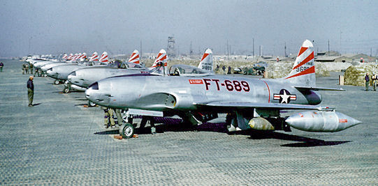 F-80Cs of the 36th FBS in Korea, Summer 1950.